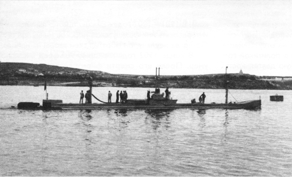 Russian submarine "Karas"